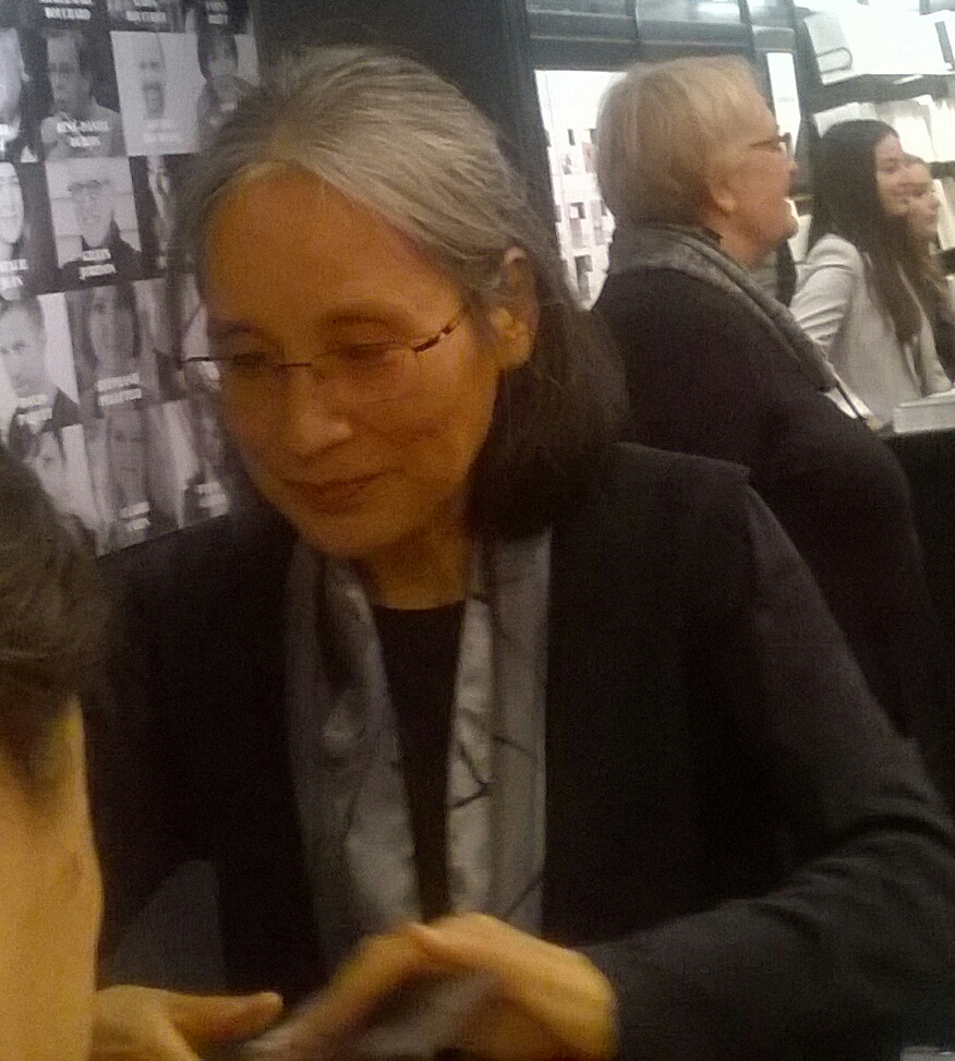 Aki Shimazaki photographed photographed in Montréal , Québec, Canada at the Salon du livre de Montréal 2018.